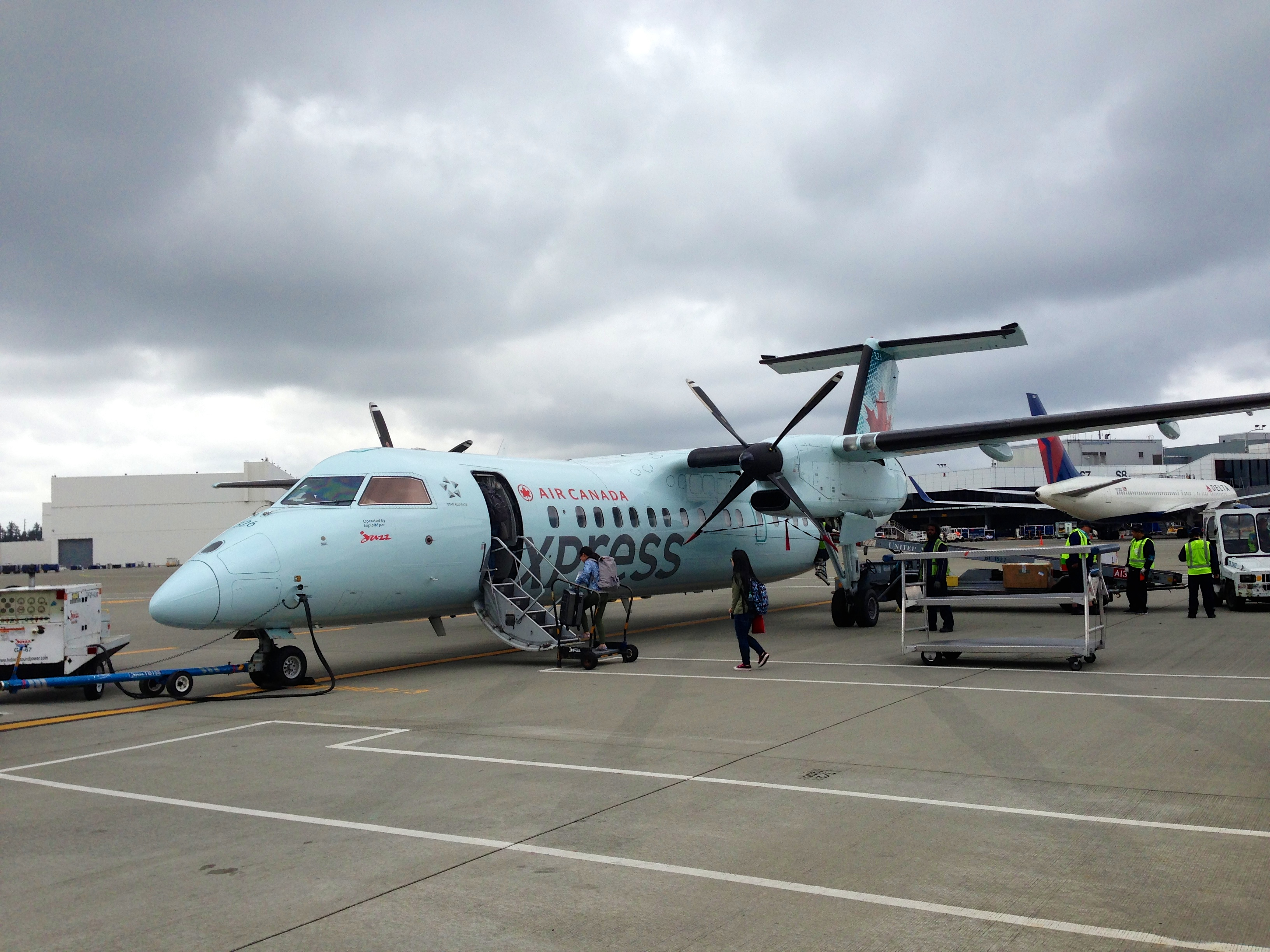 Air Canada Bombardier Dash 8-300 at Seattle Tacoma International Airport